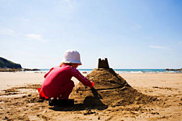 chateau de sable